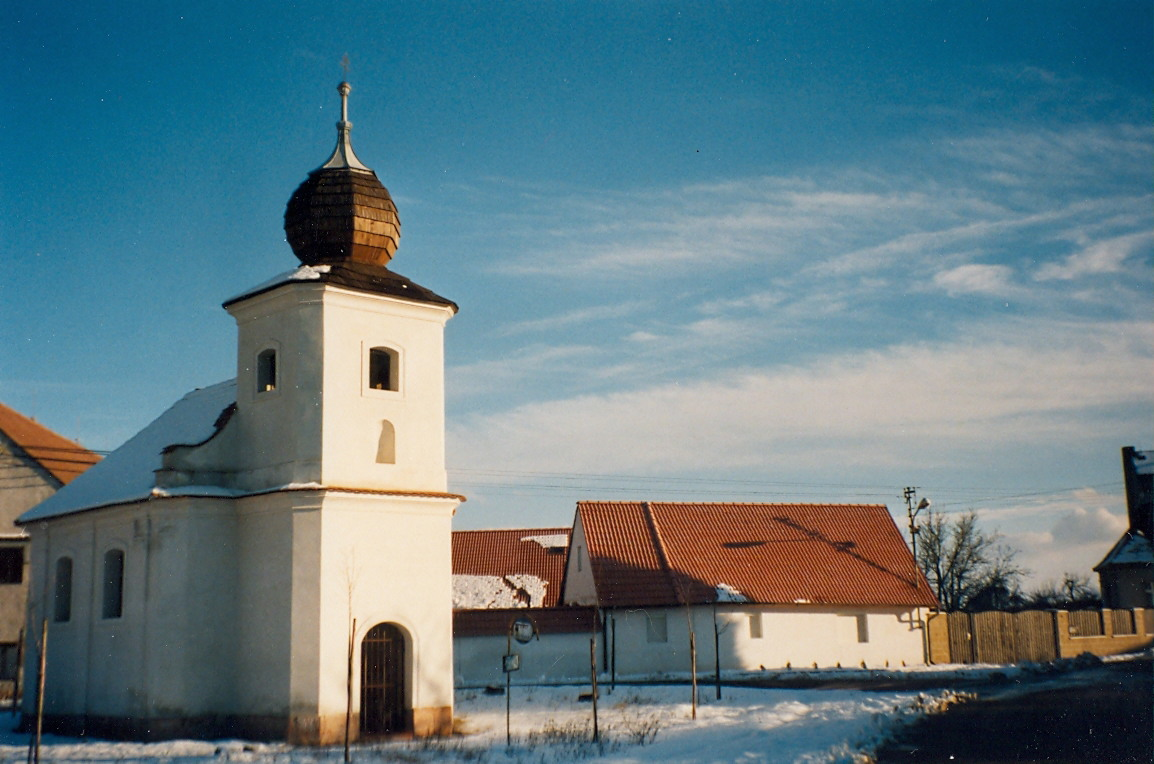 Chapel in Valov